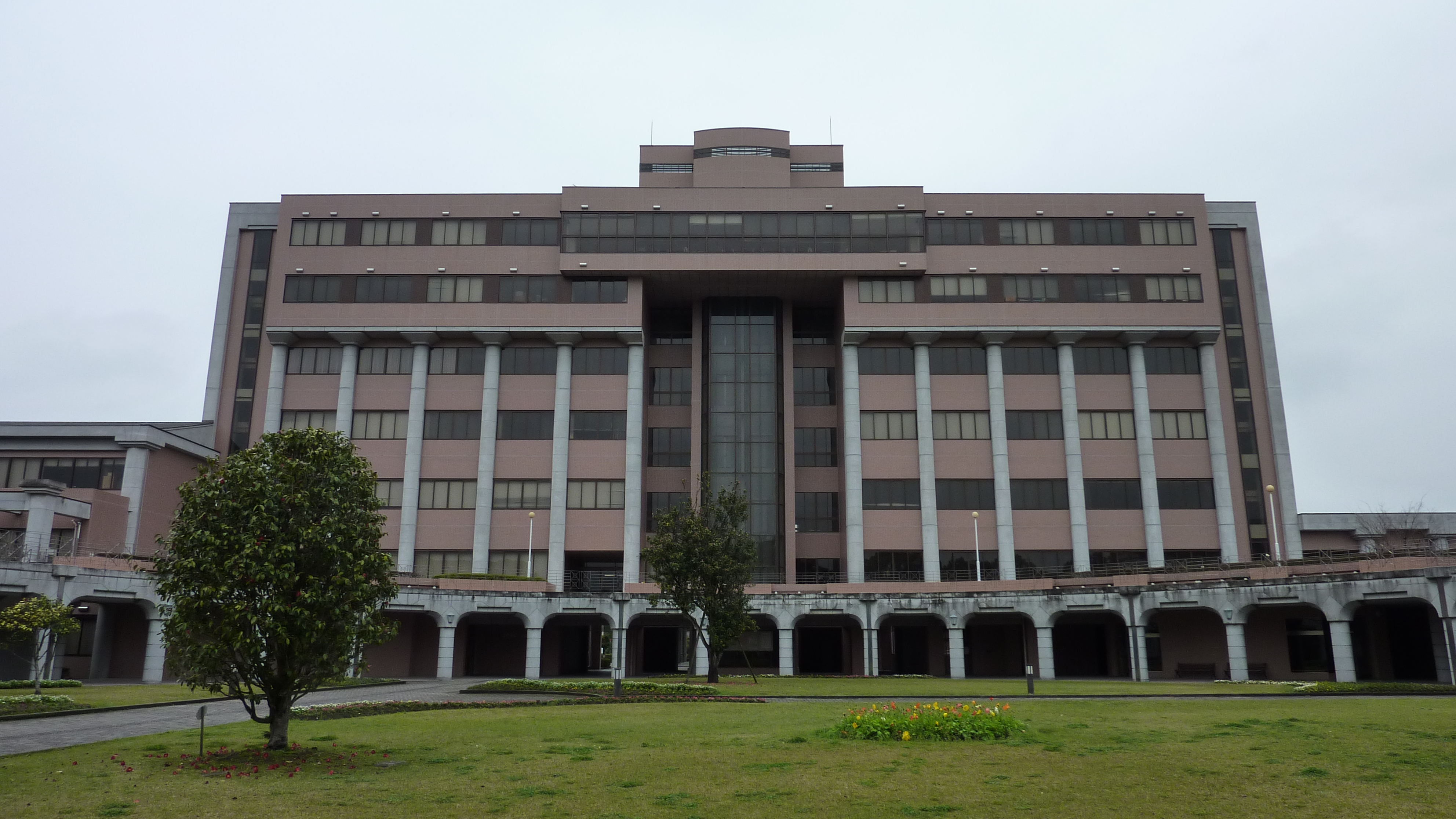 Miyazaki Municipal University Entrance (Miyazaki, Japan)